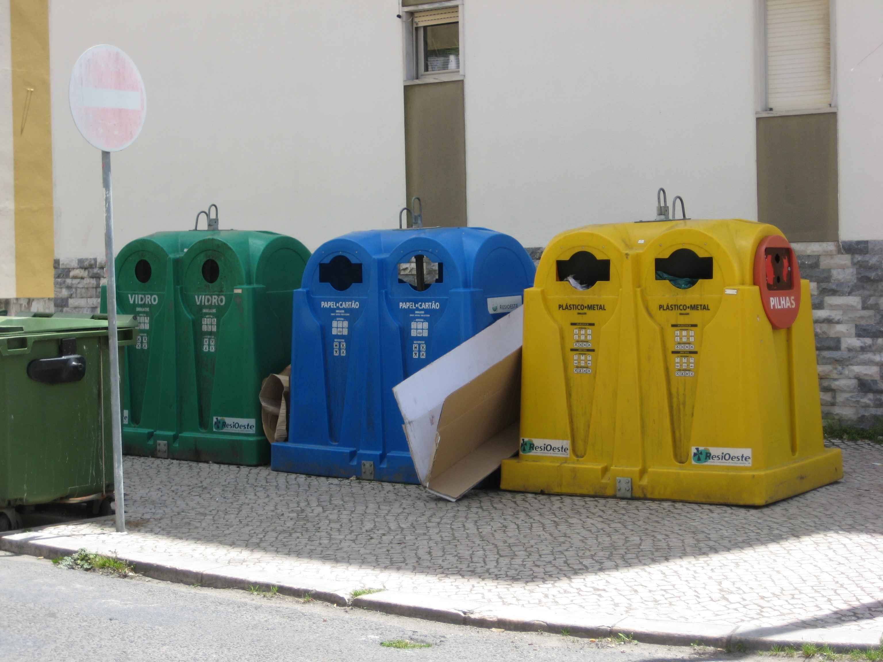 Ecoponto, a recycling post in Caldas da Rainha, Portugal